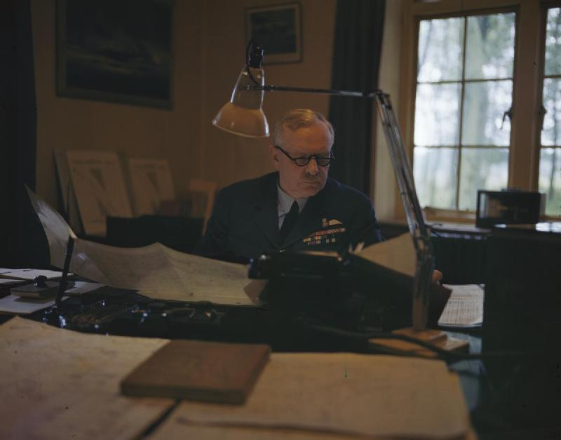 The Royal Air Force during the Second World War- Personalities Air Chief Marshal Sir Arthur T Harris, Commander in Chief of Royal Air Force Bomber Command, at his desk.